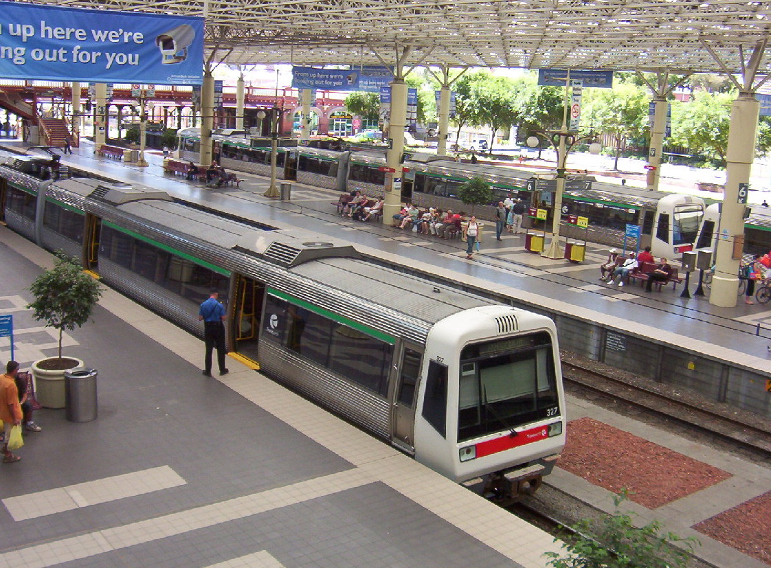 Perth railway station, with train at Platform 2 in the foreground and another train at Platform 7 in the background.